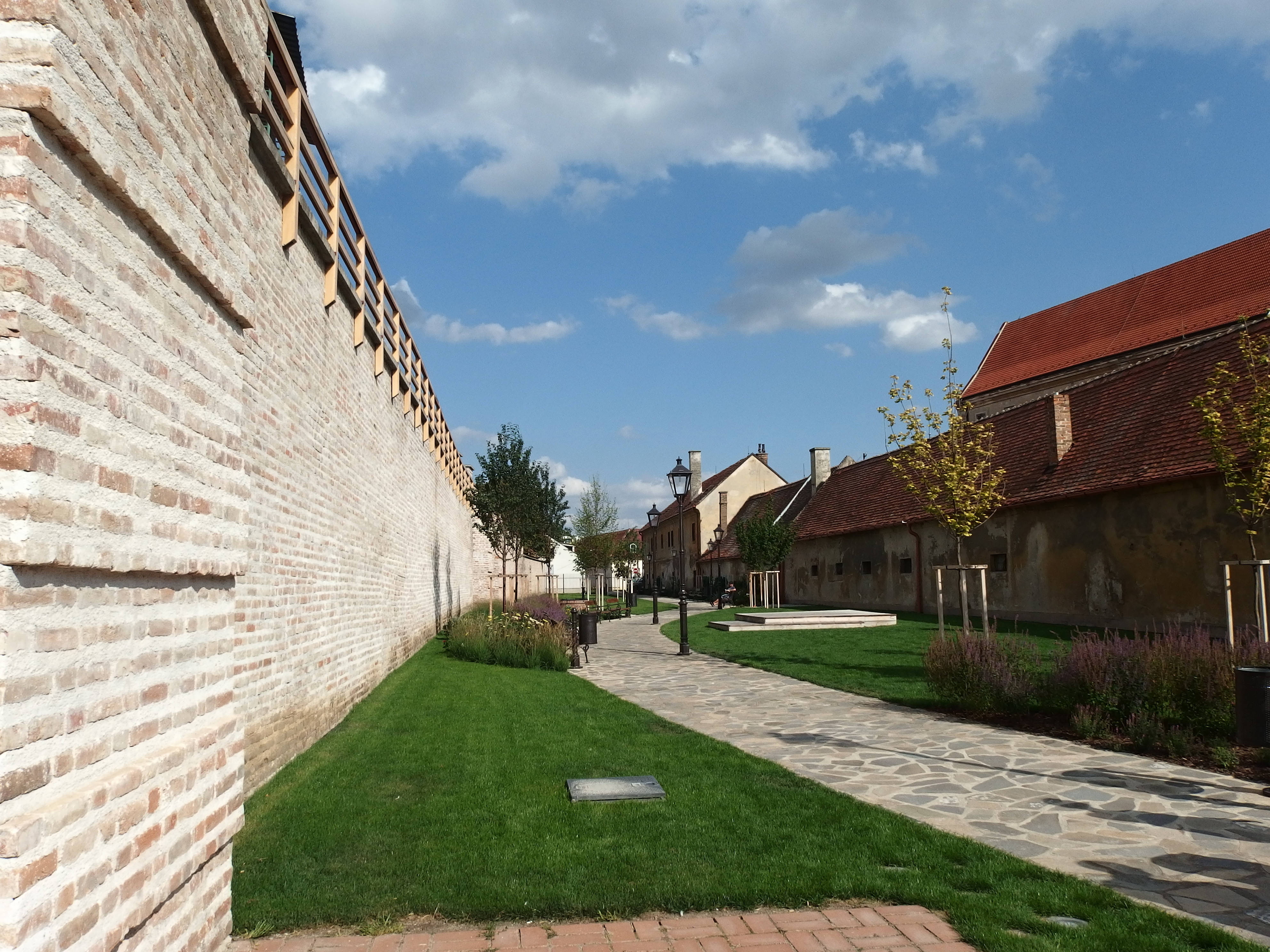 Trnava, Slovakia.